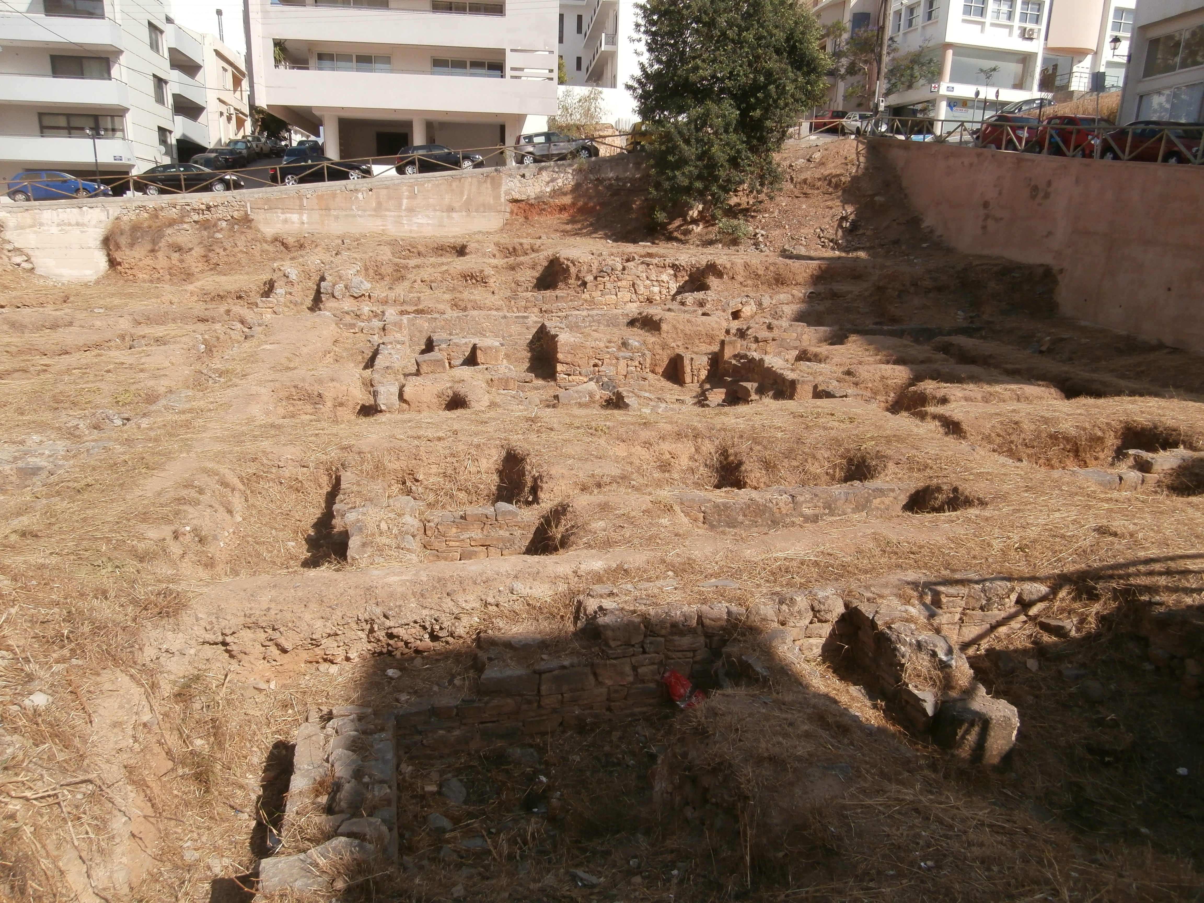 The remnants of the ancient city of Lato to Kamara in modern Agios Nikolaos